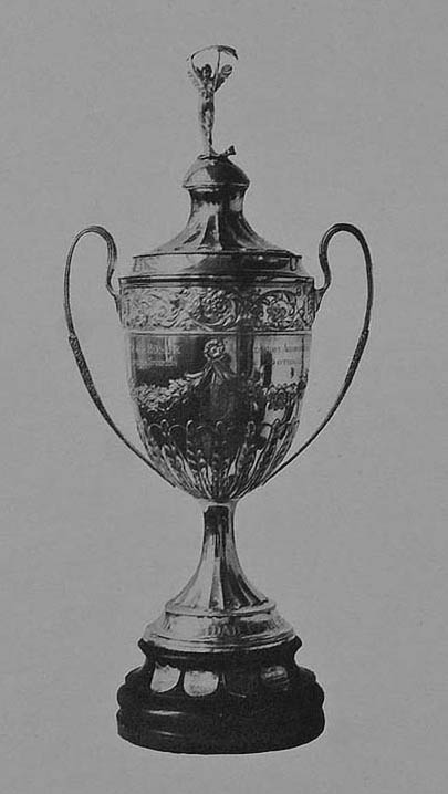 Trophy given to Copa de Honor "Municipalidad de Buenos Aires" winning squads.